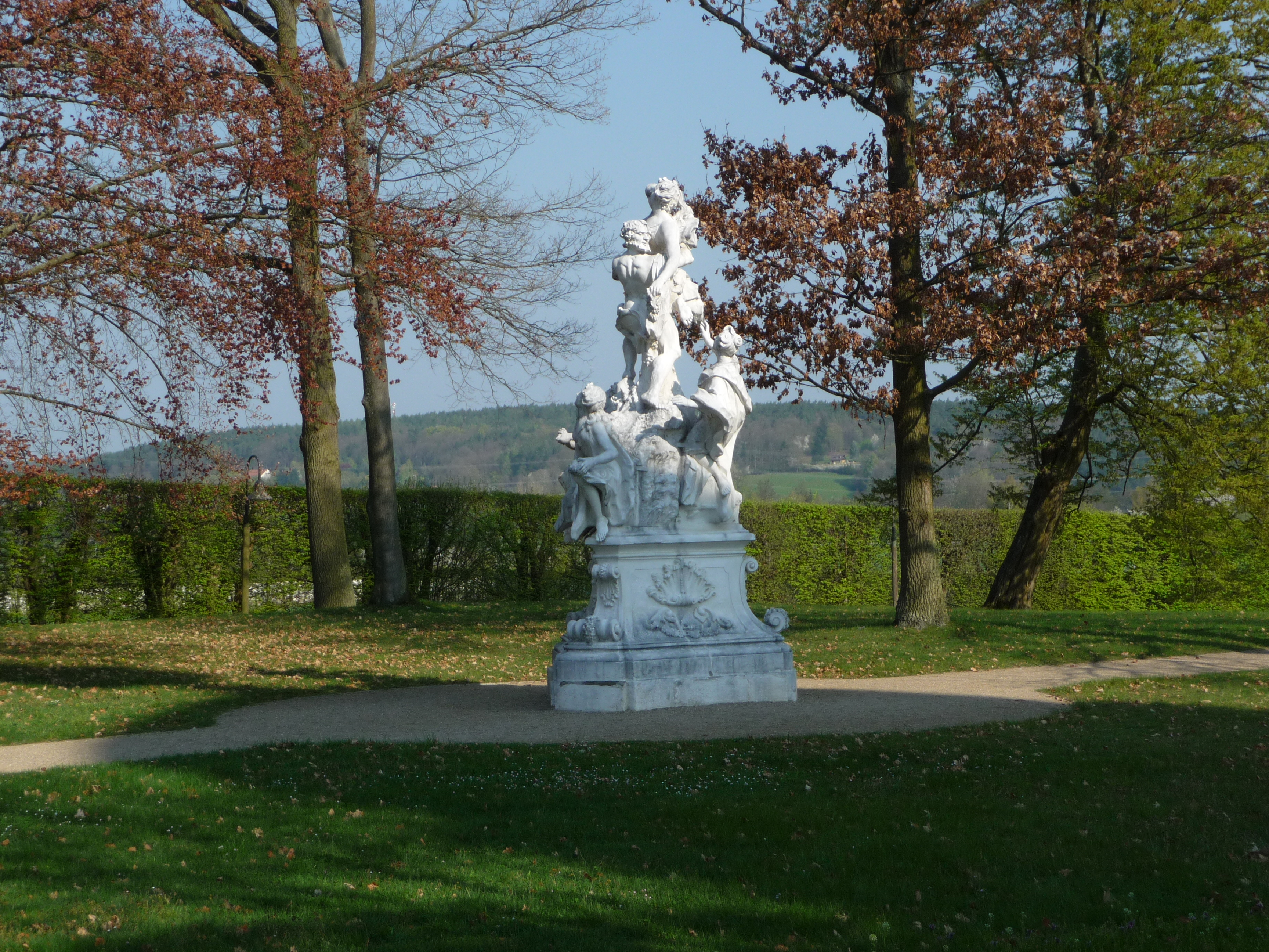 Sculpture at Schloss Seehof near Memmelsdorf in Landkreis Bamberg, Germany